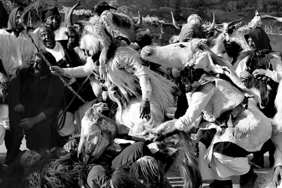 Su Maimulu is the traditional carnival having place in Gairo, Ogliastra. It's one of the most particular Carnivals troughout Sardinia